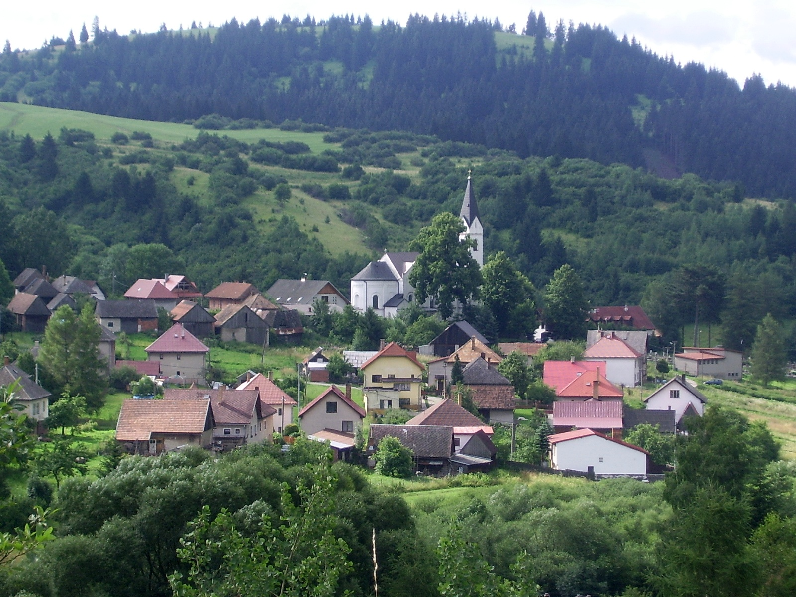 Valaská Dubová, Slovakia